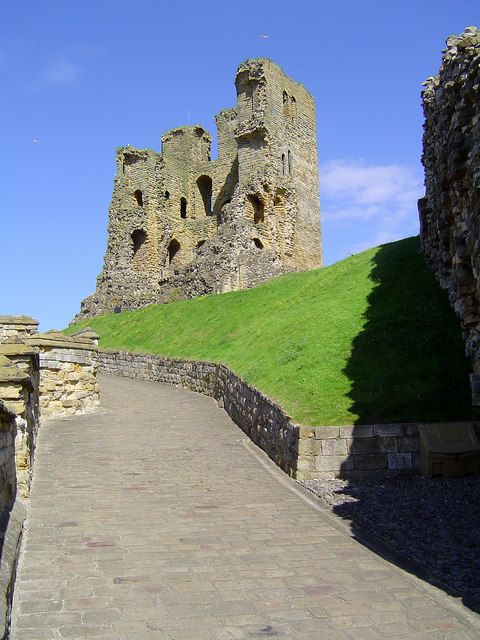 Scarborough Castle. A detailed history of the Castle can be found by following the link.